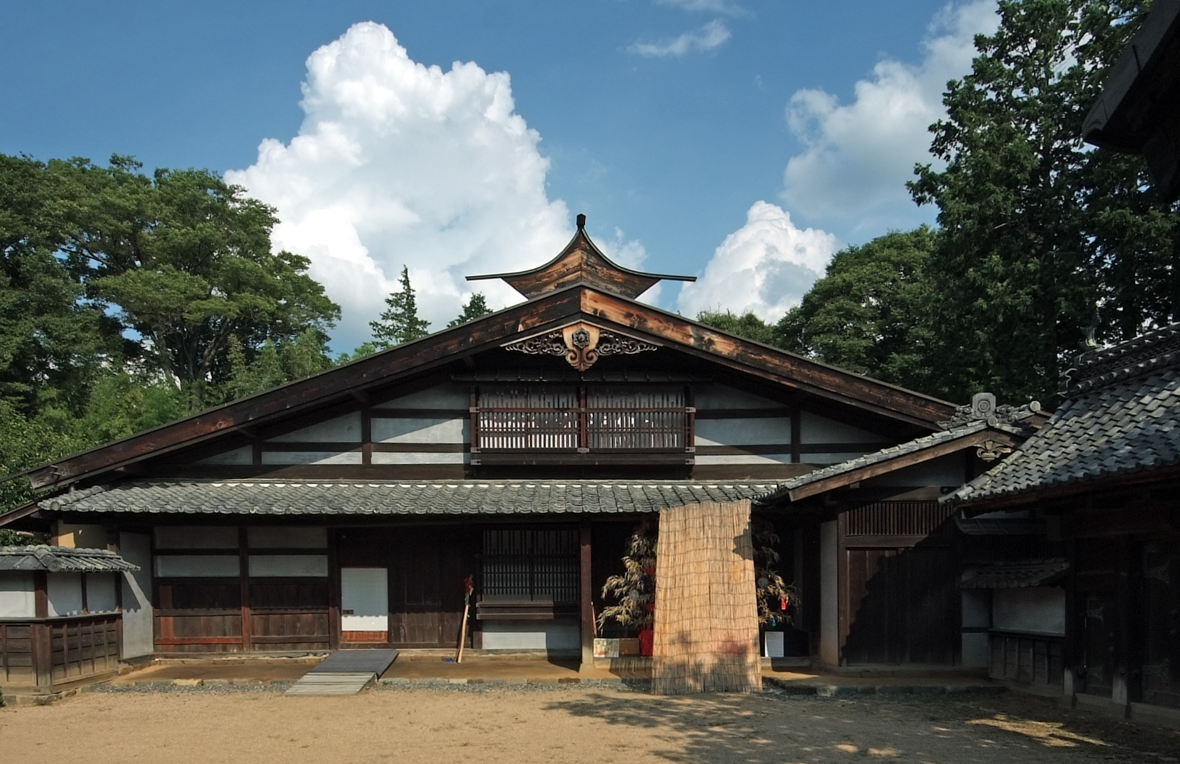 Main Building, Baba-ke House, Matsumoto, Nagano prefecture, Japan, built in 1851.